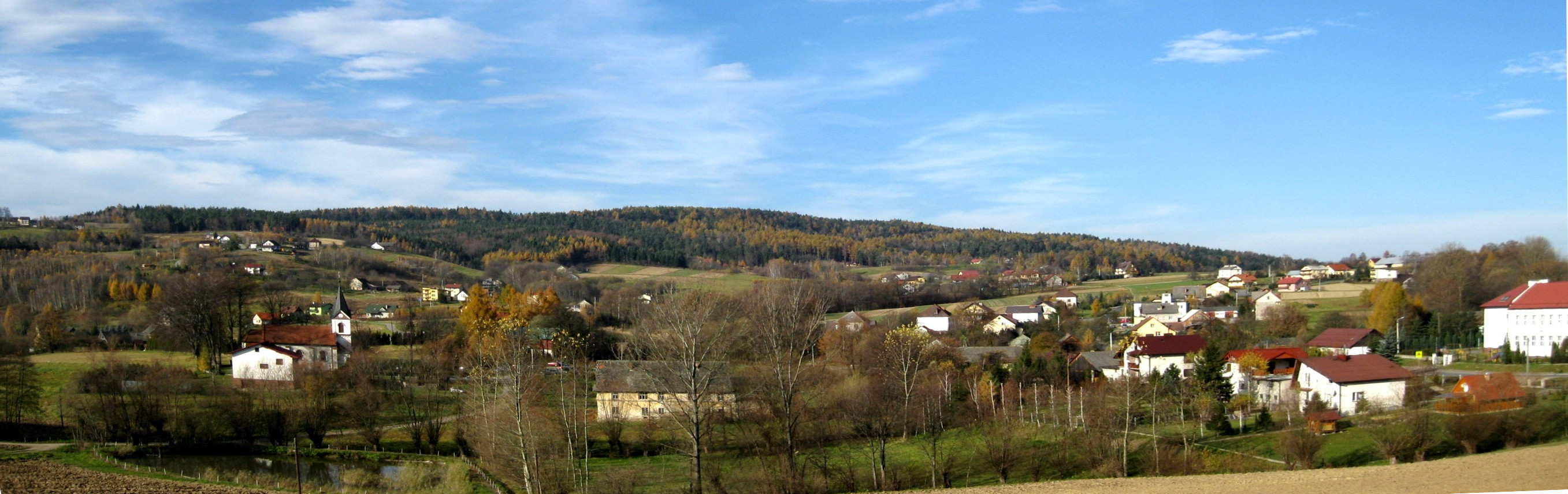 View on St. Joseph Township Church, parish Lekawica, community Stryszow, district Wadowice, county Malopolska, country Poland